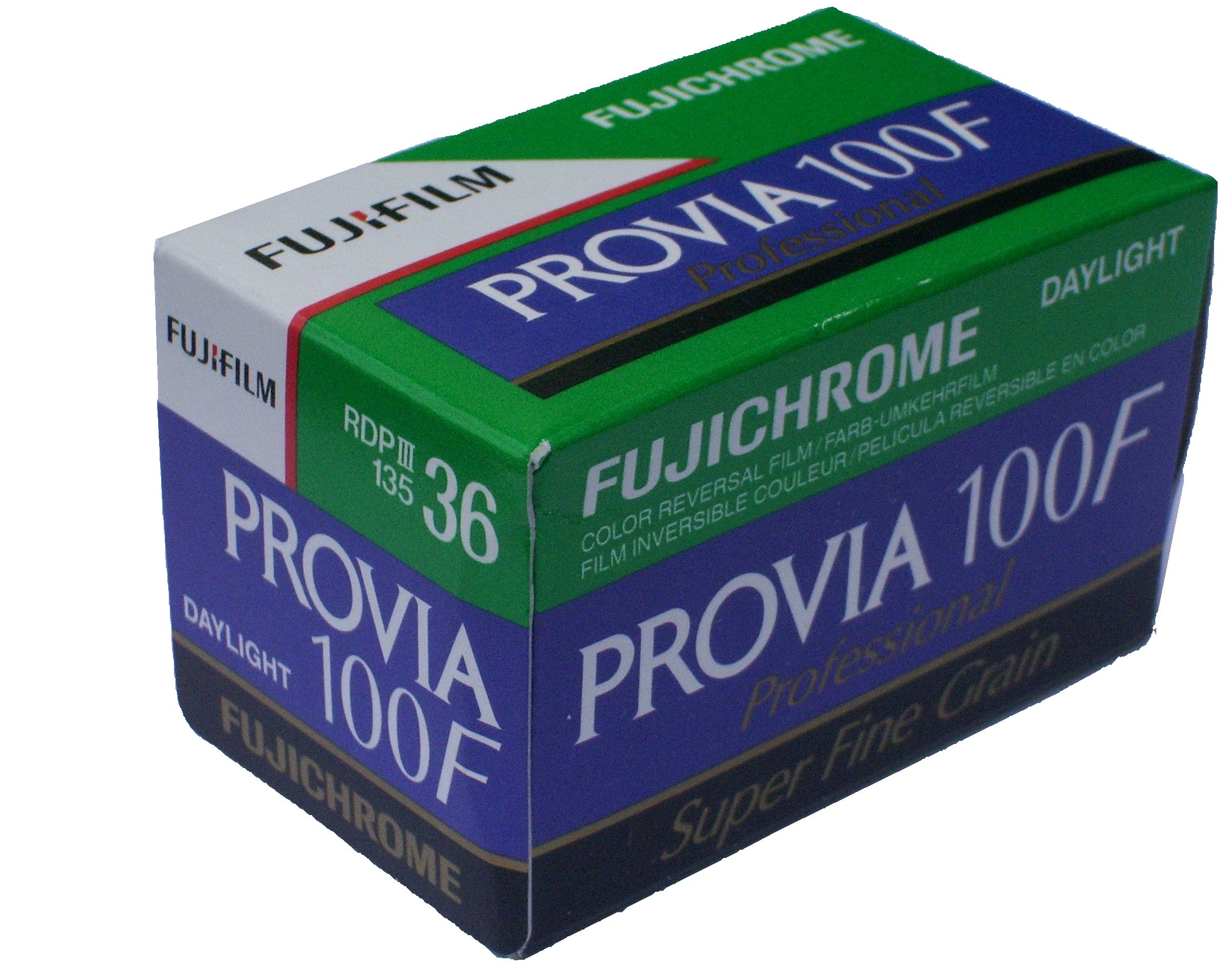 Fujifilm Provia 100F [RDP III] 35mm packaging.